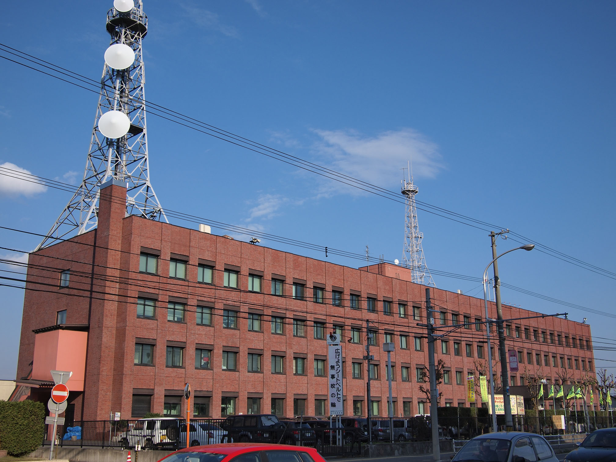 Asahikawa East Police Station, Asahikawa, Hokkaido, Japan